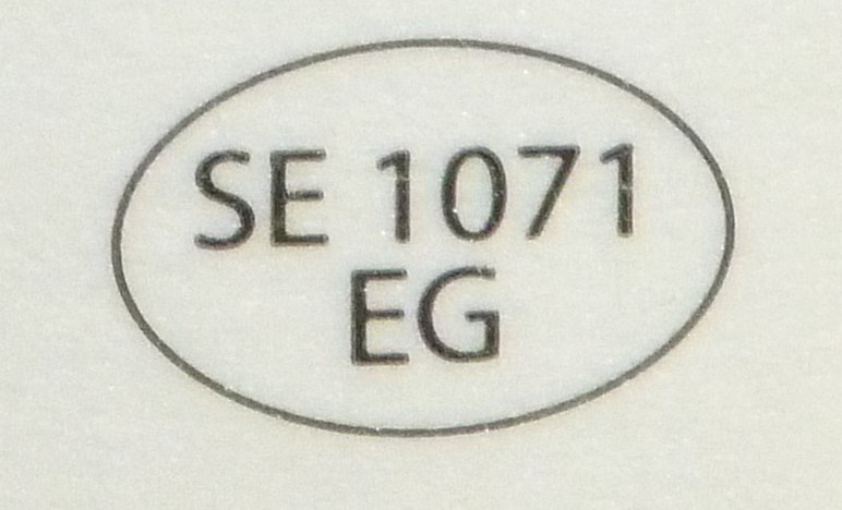 Example of producer labeling of dairy products in the EU